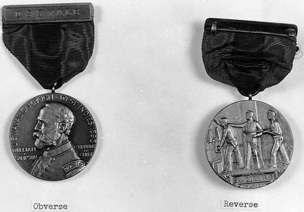 West Indies Naval Campaign Medal, 1898 (also known as the "Sampson Medal")Awarded to a crewmember of USS Yale for service during the attack on San Juan, Puerto Rico, on 10 May 1898. This medal, authorized on 3 March 1901, features a bust of Rear Admiral William T. Sampson on its obverse. The reverse, with a Navy officer, Sailor and Marine, has a block identifying the action for which the medal was awarded. The bar on the ribbon identifies the recipient's ship. The ribbon is red, blue and red in three vertical stripes of equal width. The medal's obverse was designed by Charles E. Barber; the reverse by George T. Morgan.